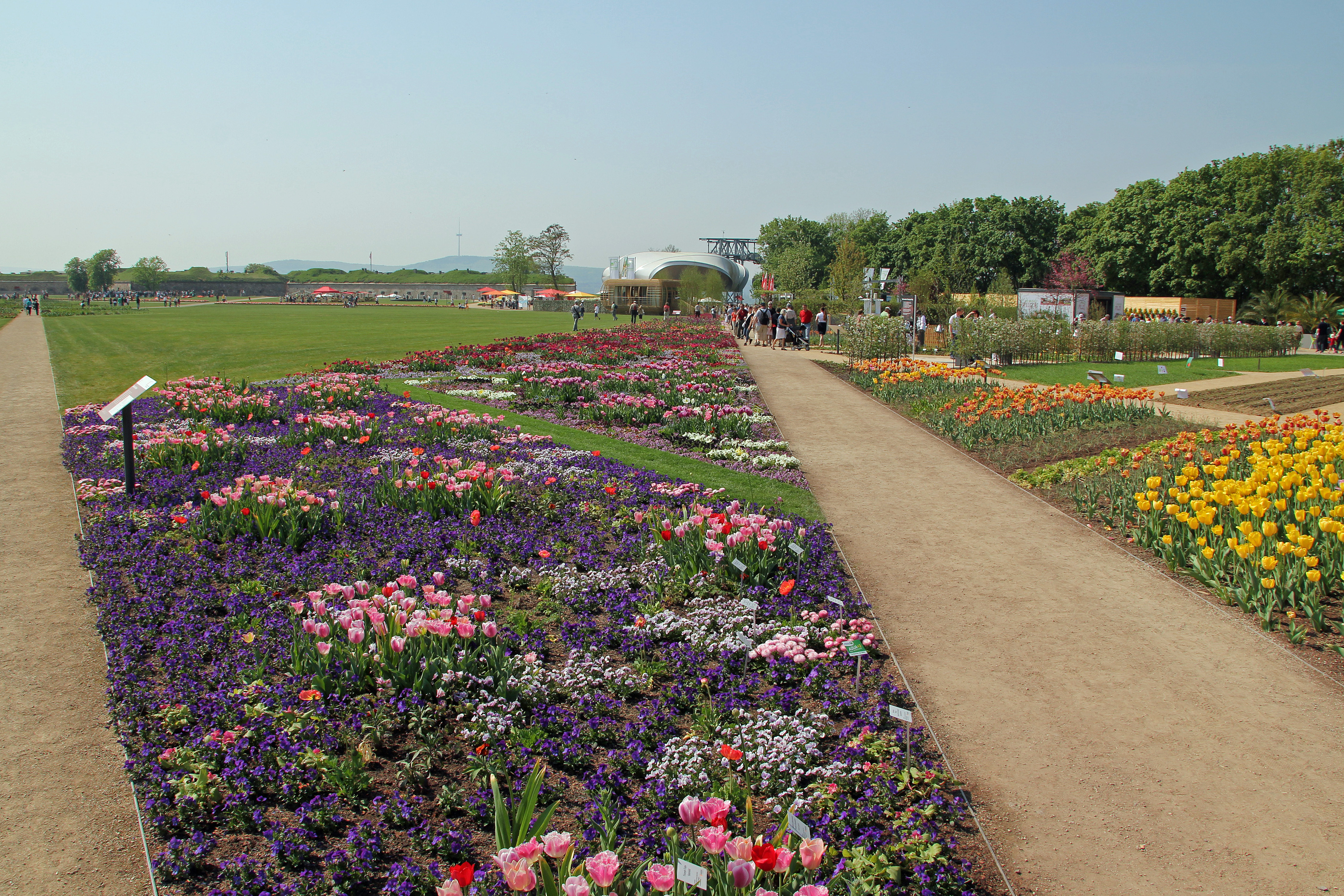 Federal Horticultural Show 2011 in Koblenz - Ehrenbreitstein Fortress